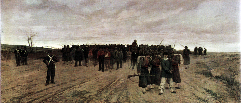 Retour from Mentana Battle